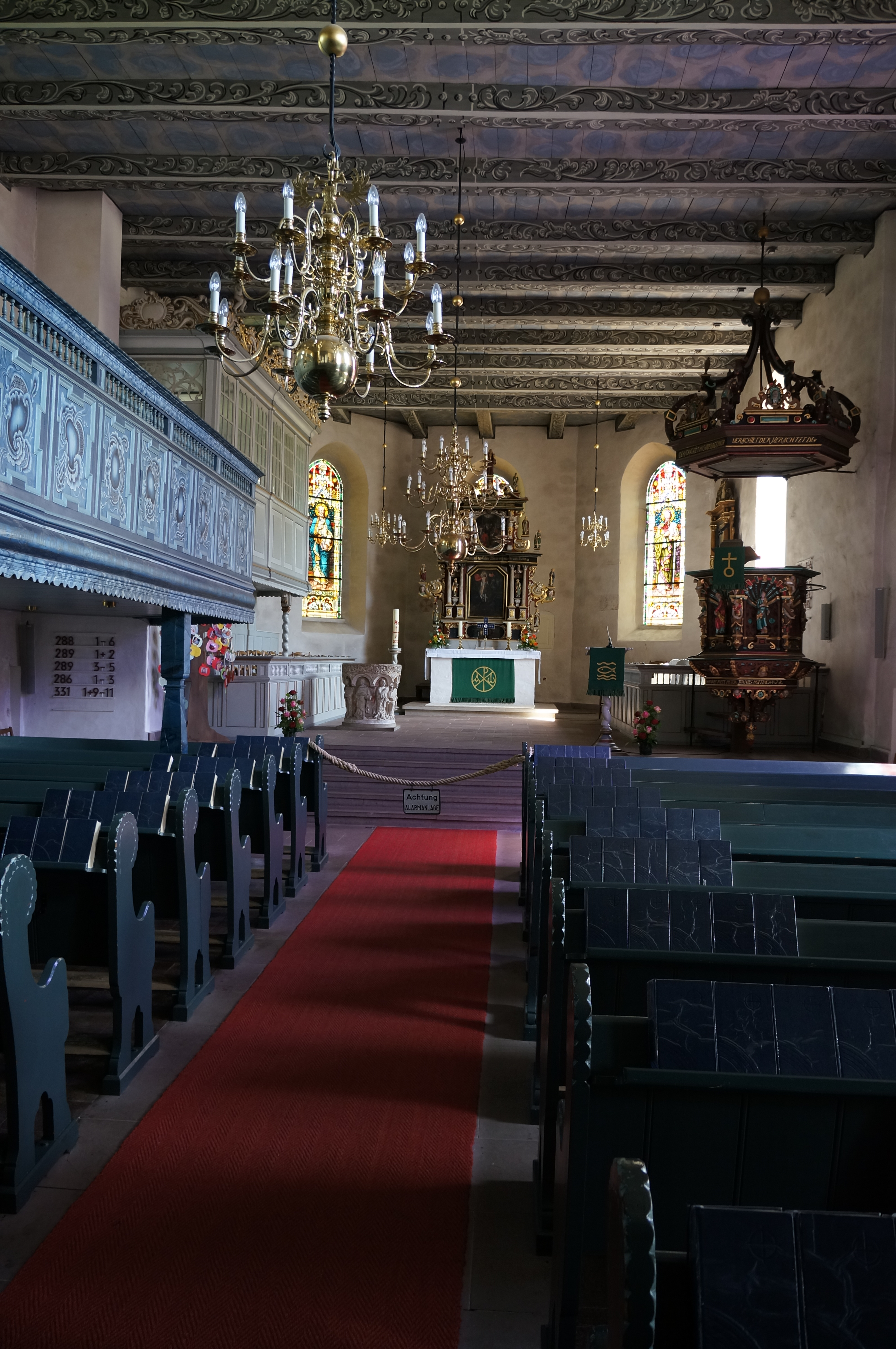 St.-Ulrichs-Church in Rastede - Interior View